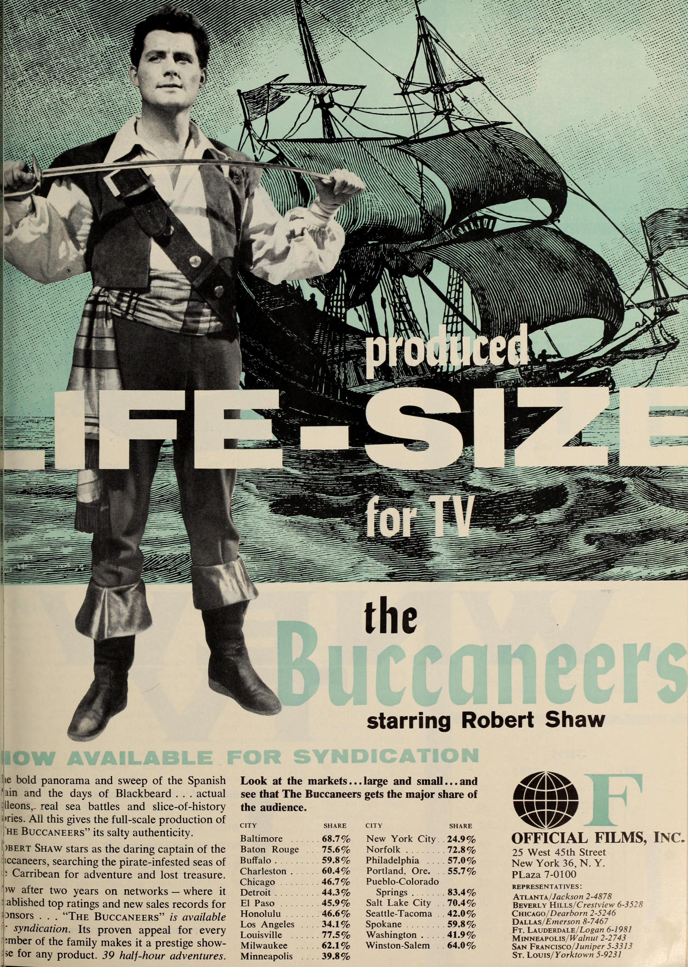 Advertisement for The Buccaneers